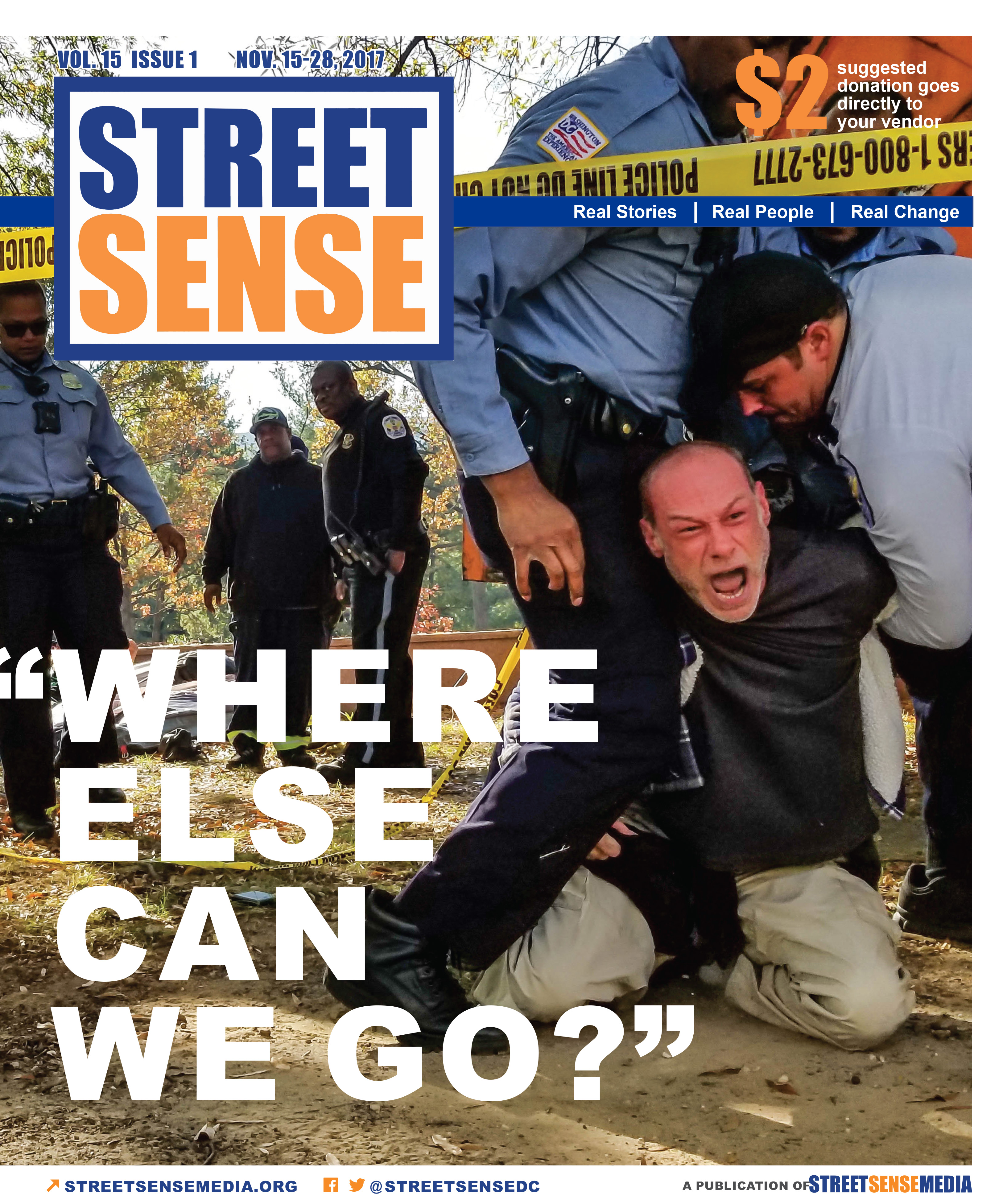 Volume 15: Issue 1 cover. Photo by Ben Burgess //